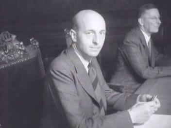 Sicco Mansholt in 1946